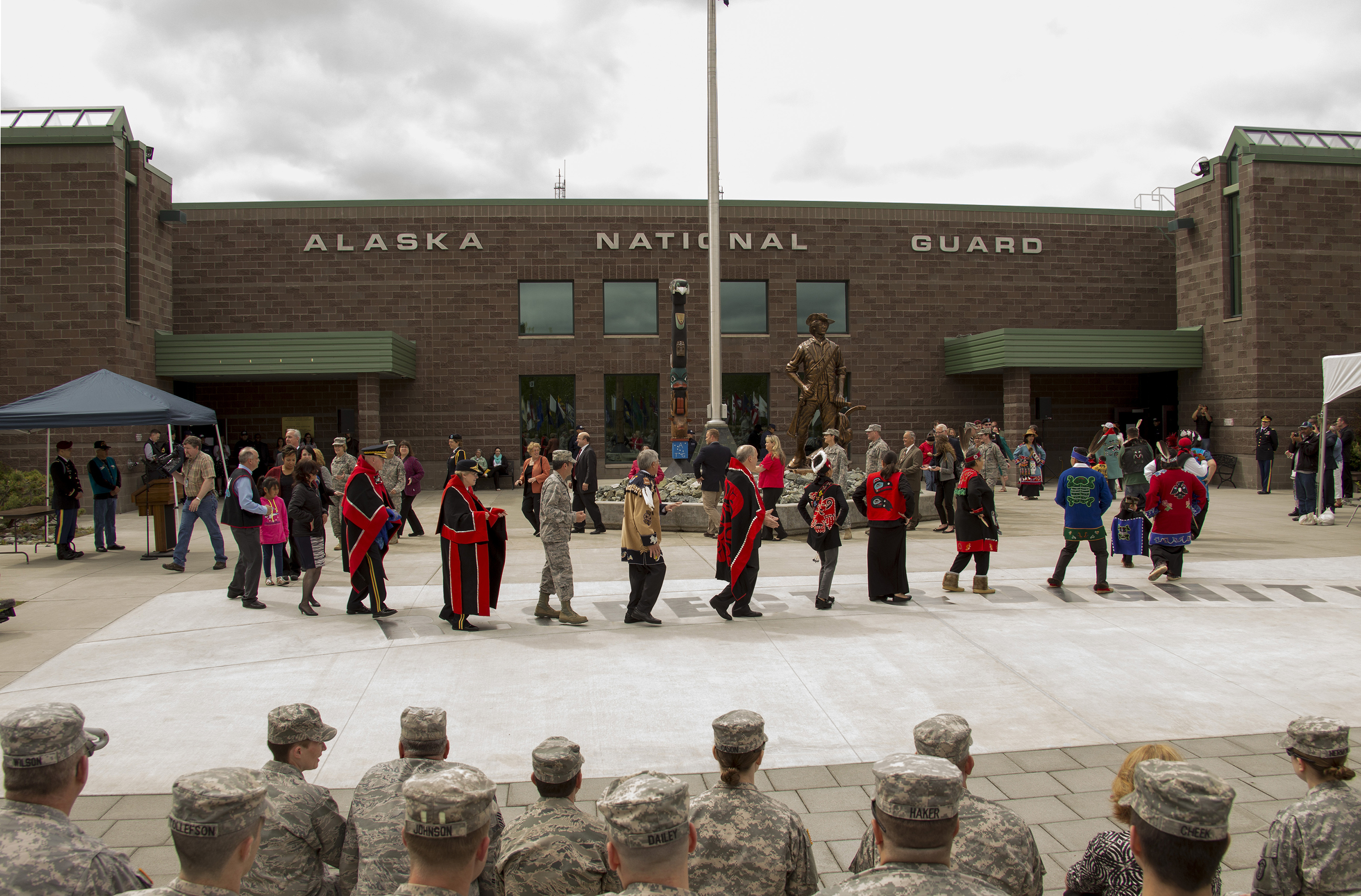 Gov. Bill Walker, center in red and black Tlingit button blanket, and Lt. Gov. Byron Mallott, left of governor, participate in a Blessing and Cleansing ceremony at the Alaska National Guard armory on Joint Base Elmendorf-Richardson May 26. The Blessing and Cleansing ceremony is a complex and symbolic event to reinvigorate the spirit of the National Guard that is embodied in the honor pole, which was carved by George Bennett and his son James Bennett in Sitka, Alaska, to honor the Alaska National Guard’s past and present military service, seen in the background.